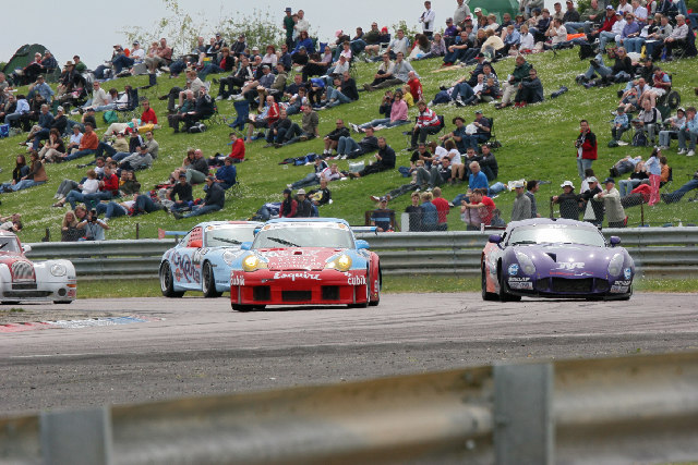 Author: Richard Townsend